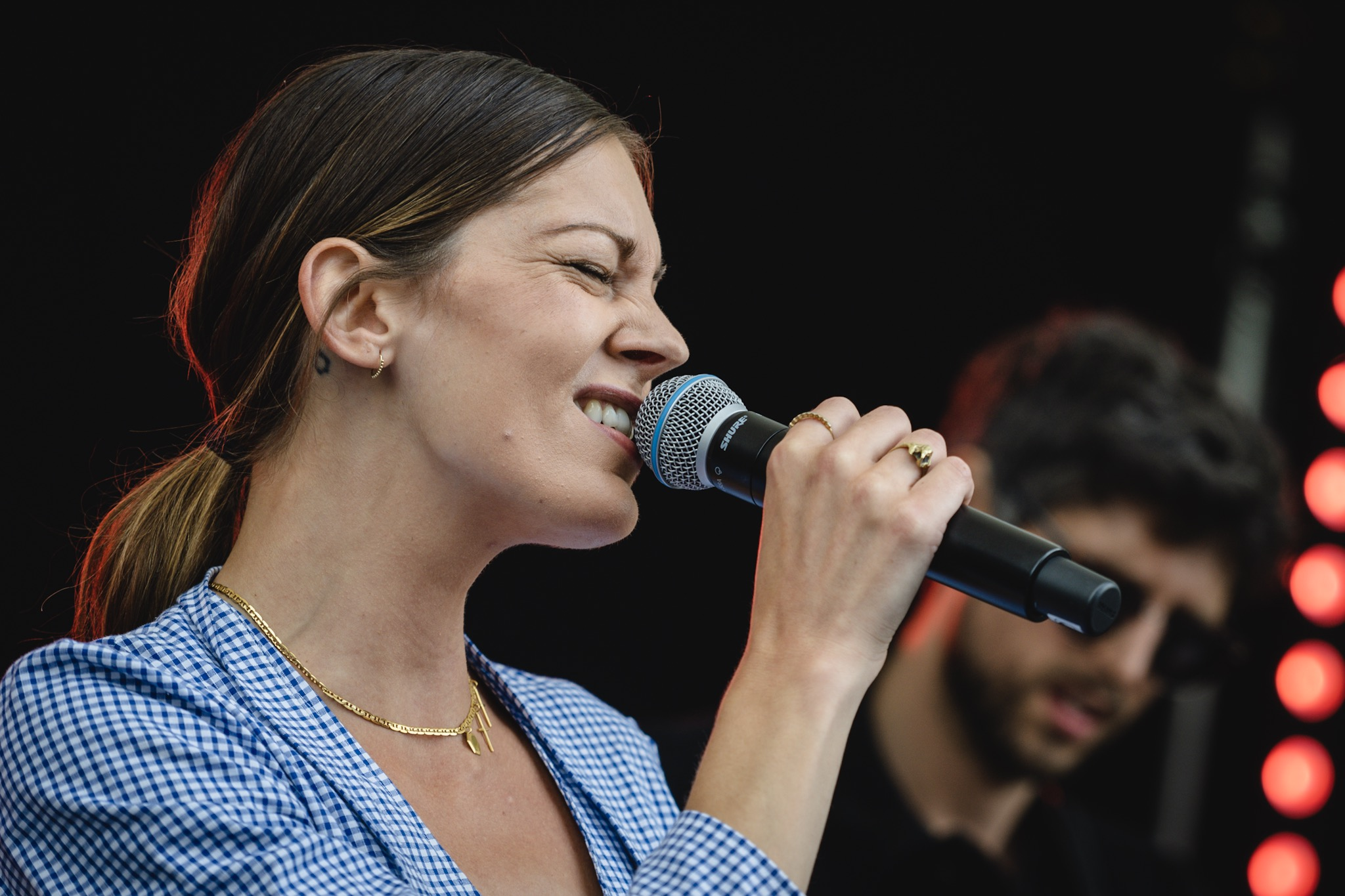 Turning Tides Festival: Rosie Lowe